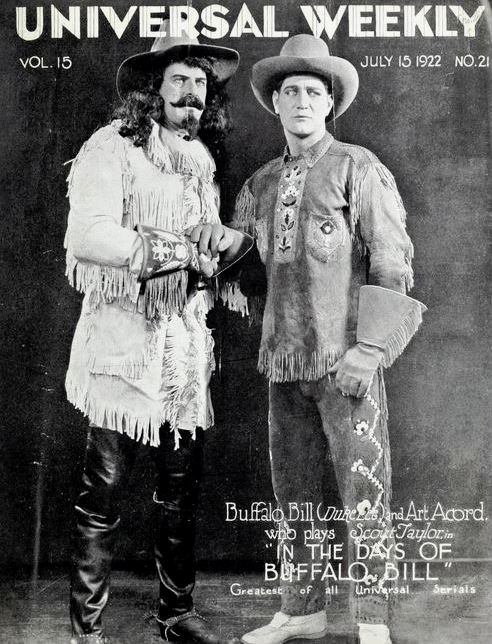 Still from the American western film serial In the Days of Buffalo Bill (1922) with Art Acord and Duke R. Lee, on the front cover of the July 15, 1922 Universal Weekly.